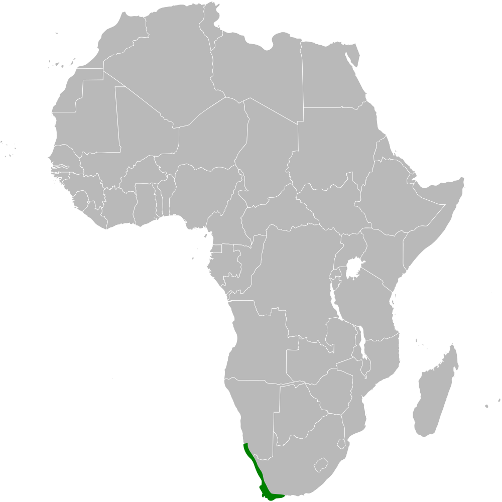 Certhilauda curvirostris distribution map; using Blank Map-Africa.svg, based on